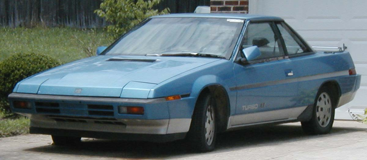 1985-1991 Subaru Turbo XT photographed in USA.